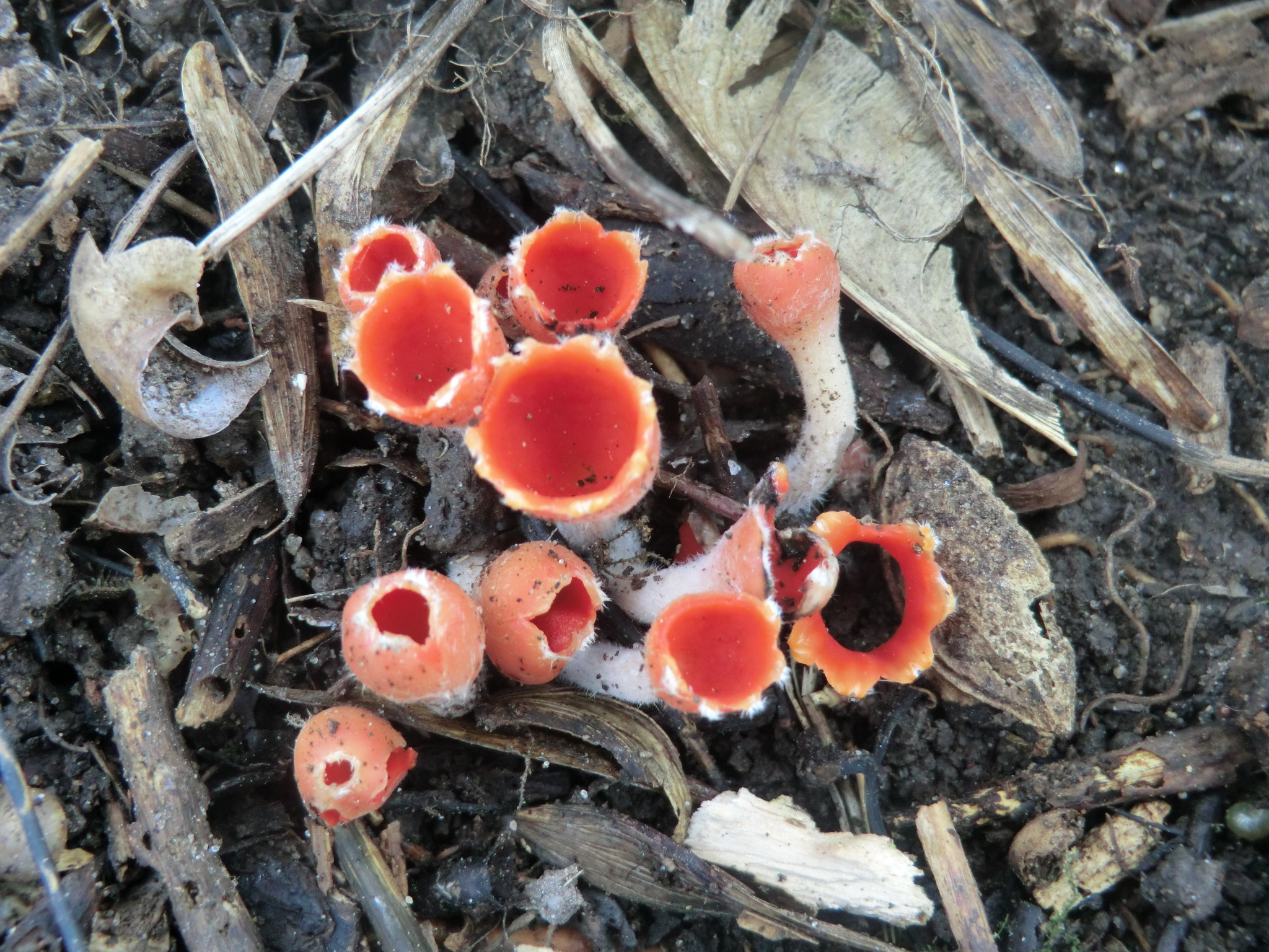 Microstoma protractum For more information about this, see the observation page at Mushroom Observer.